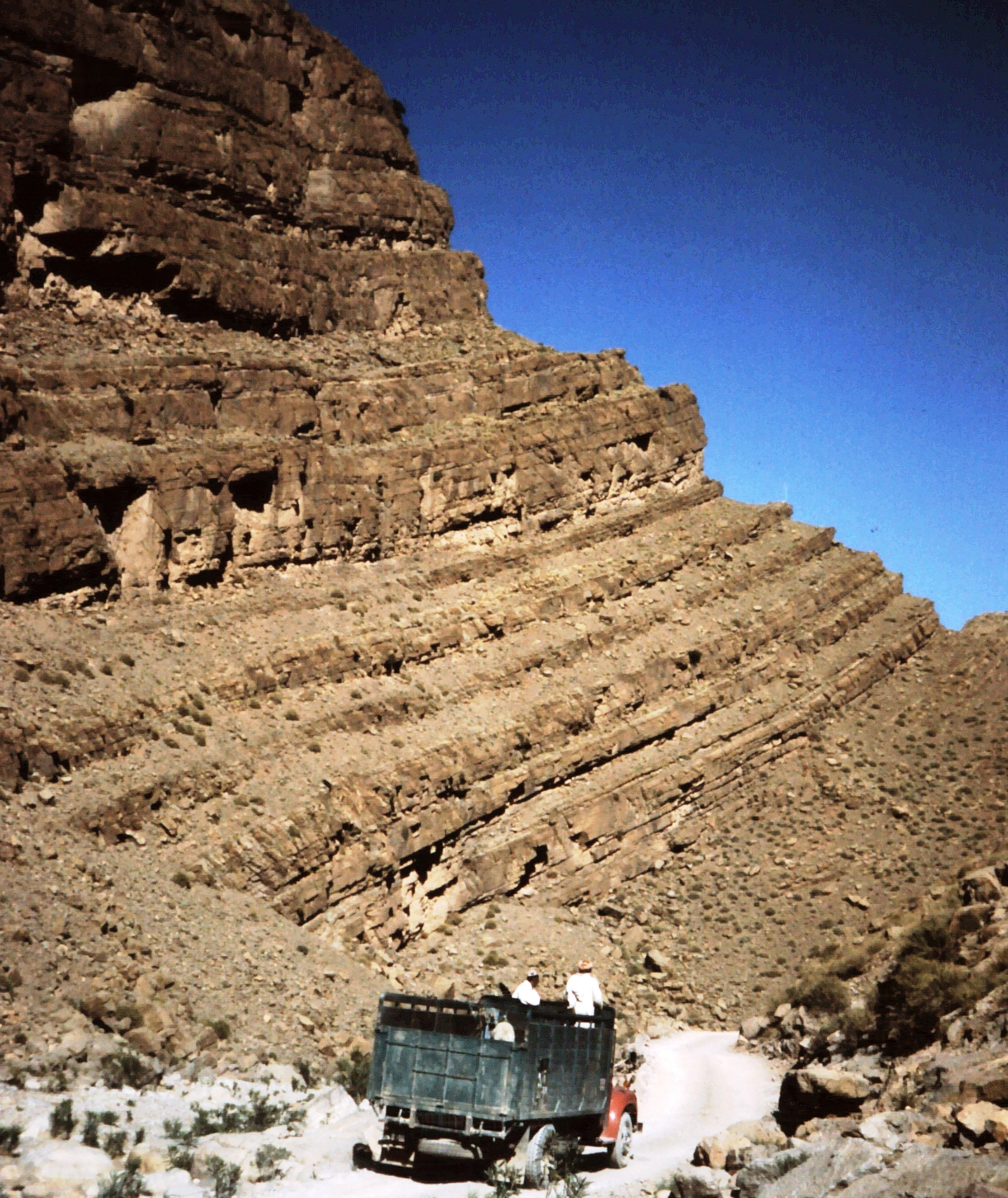 Regressive metric to hectometric carbonates sequences "shallowing upward" in the lagoonal middle liassic of the High Atlas, Morocco. These cycles were observed on the southern boarder of the atlasic rift, in the Todhra area. They are related to an acceleration of the subsidence during liassic times (autocycles). See also Septfontaine, 1985, Rev. de Micropal. on